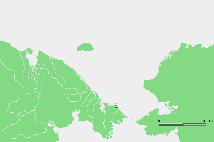 location map